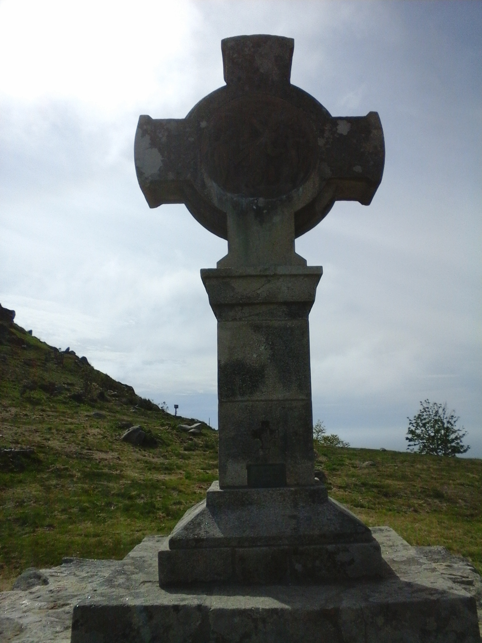 A waycross in Via Crucis